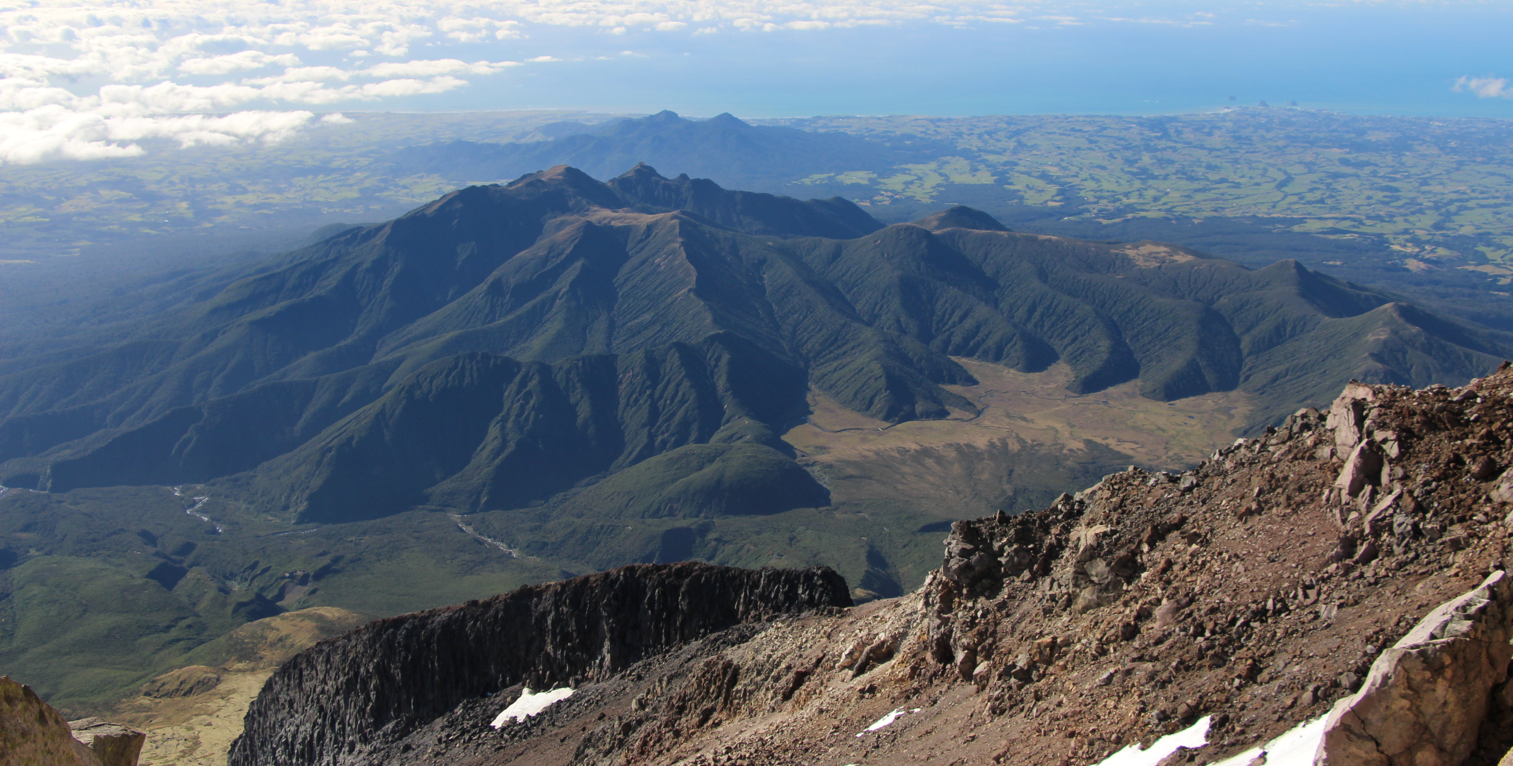 Pouakai Range. Egmont National Park, New Zealand